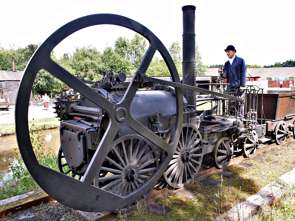 Richard Trevithick's 1802 steam locomotive